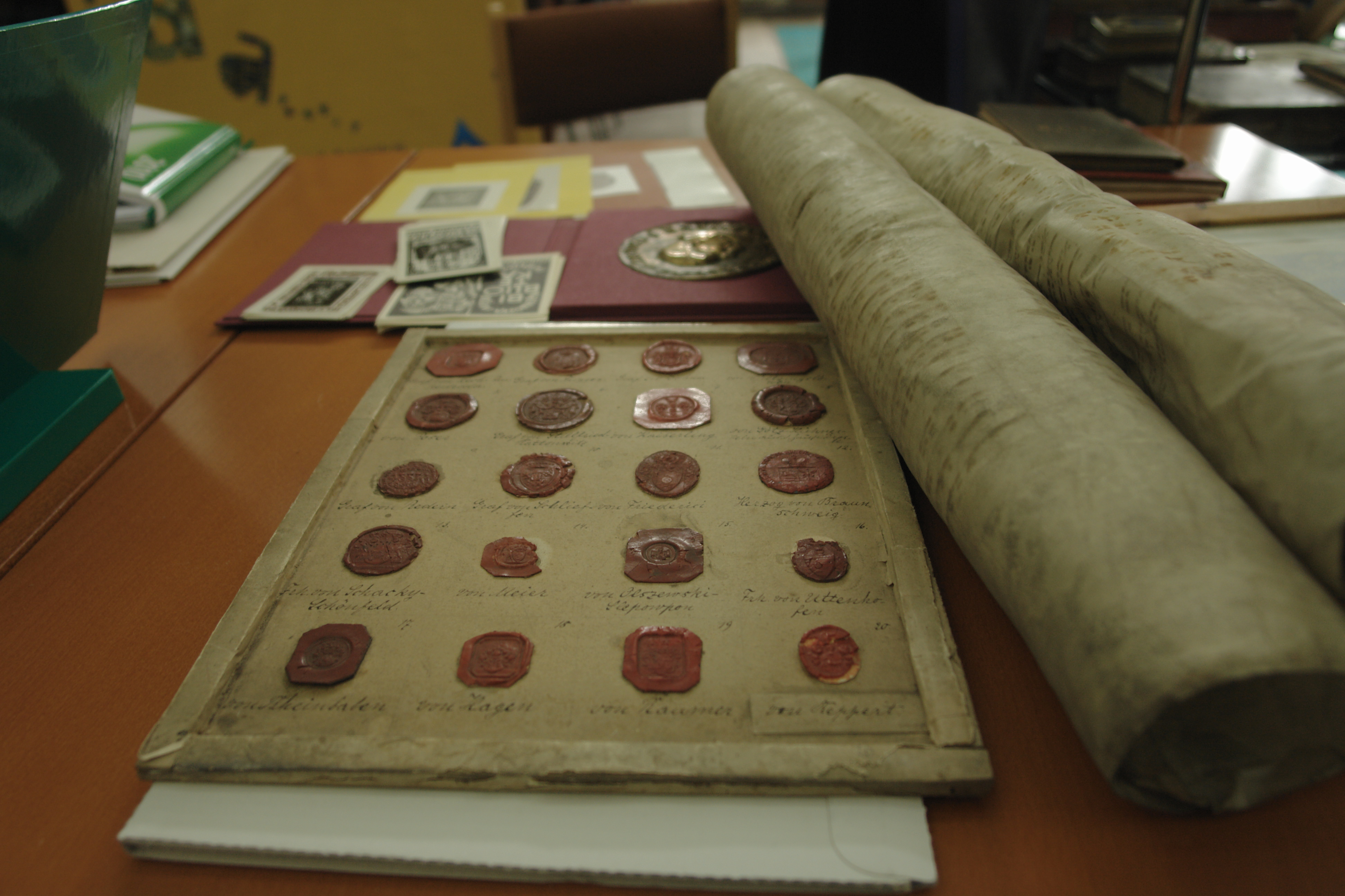 The Norwid Library in Zielona Góra, a fragment of its collection